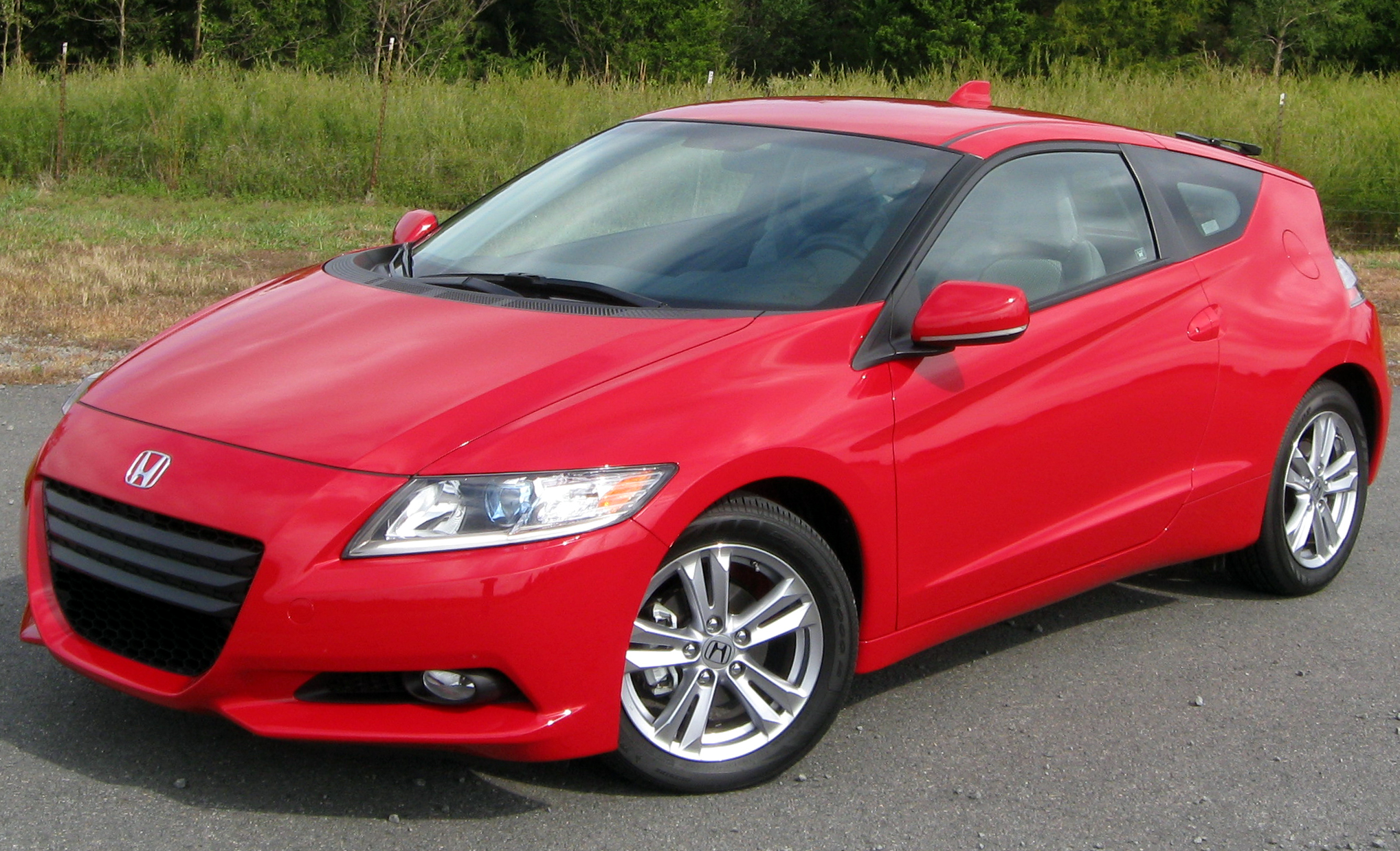 2011 Honda CR-Z photographed in Centreville, Virginia, USA.